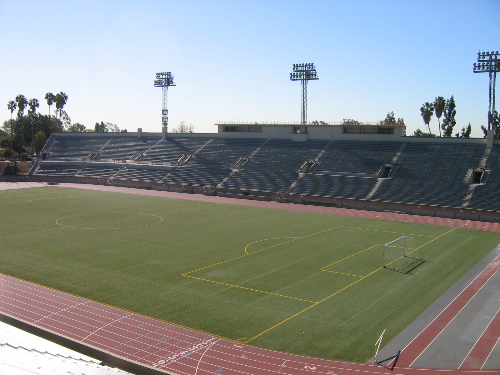 Football & Soccer Facilities-ELAC College Stadium